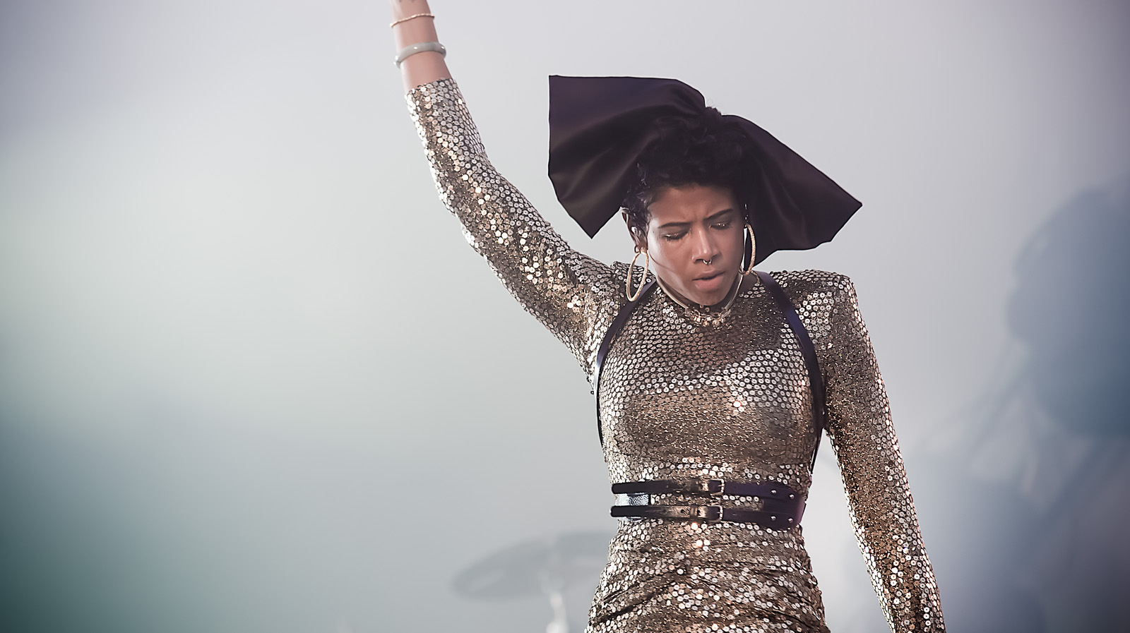 Kelis performing at Palmesus 2011, Kristiansand Norway.